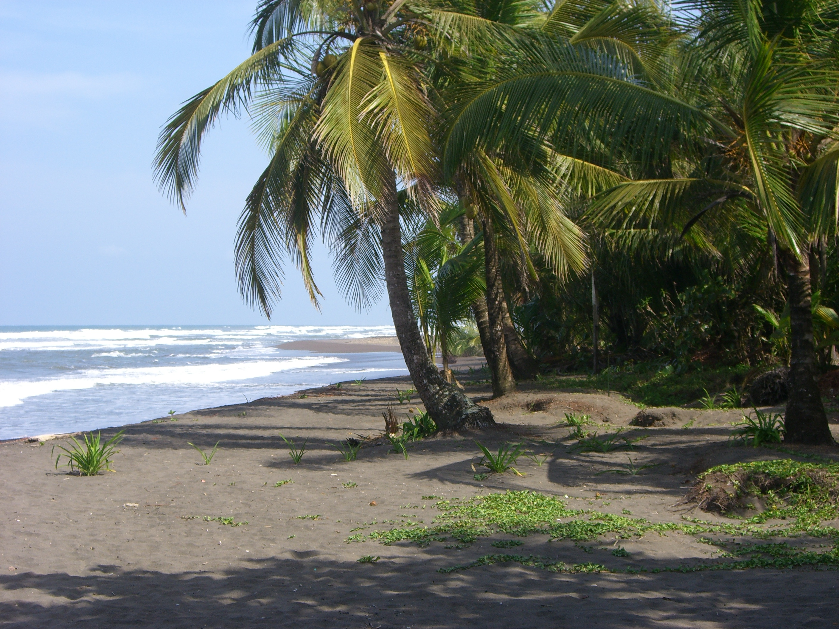 I took this picture while I stayed at Tortuguero, Costa Rica. This is showing the dark sand due to volcanic ash and a nice view Caribbean sea.